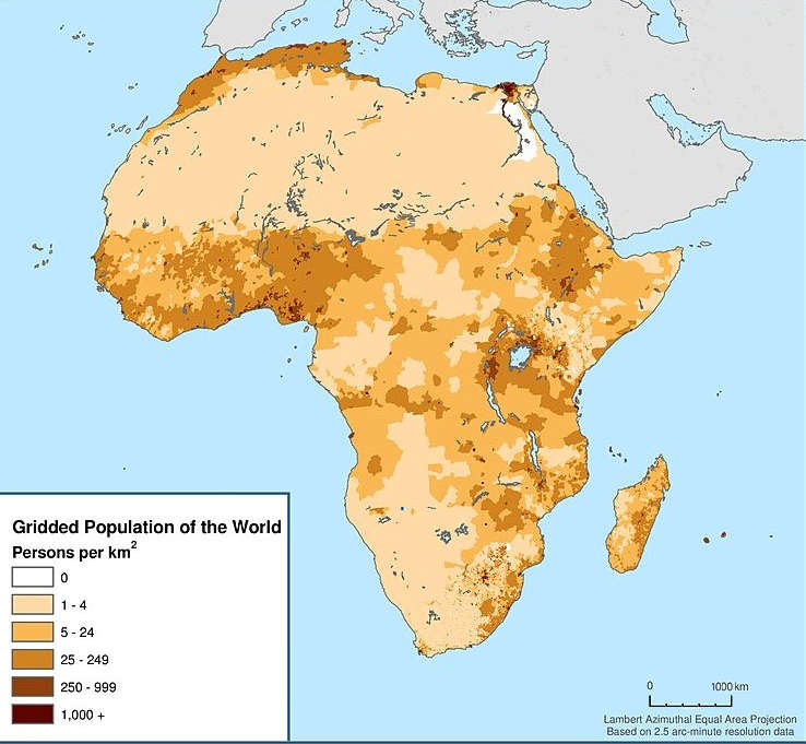 Map showing the population density of Africa.Title: Africa: Population Density, 2000